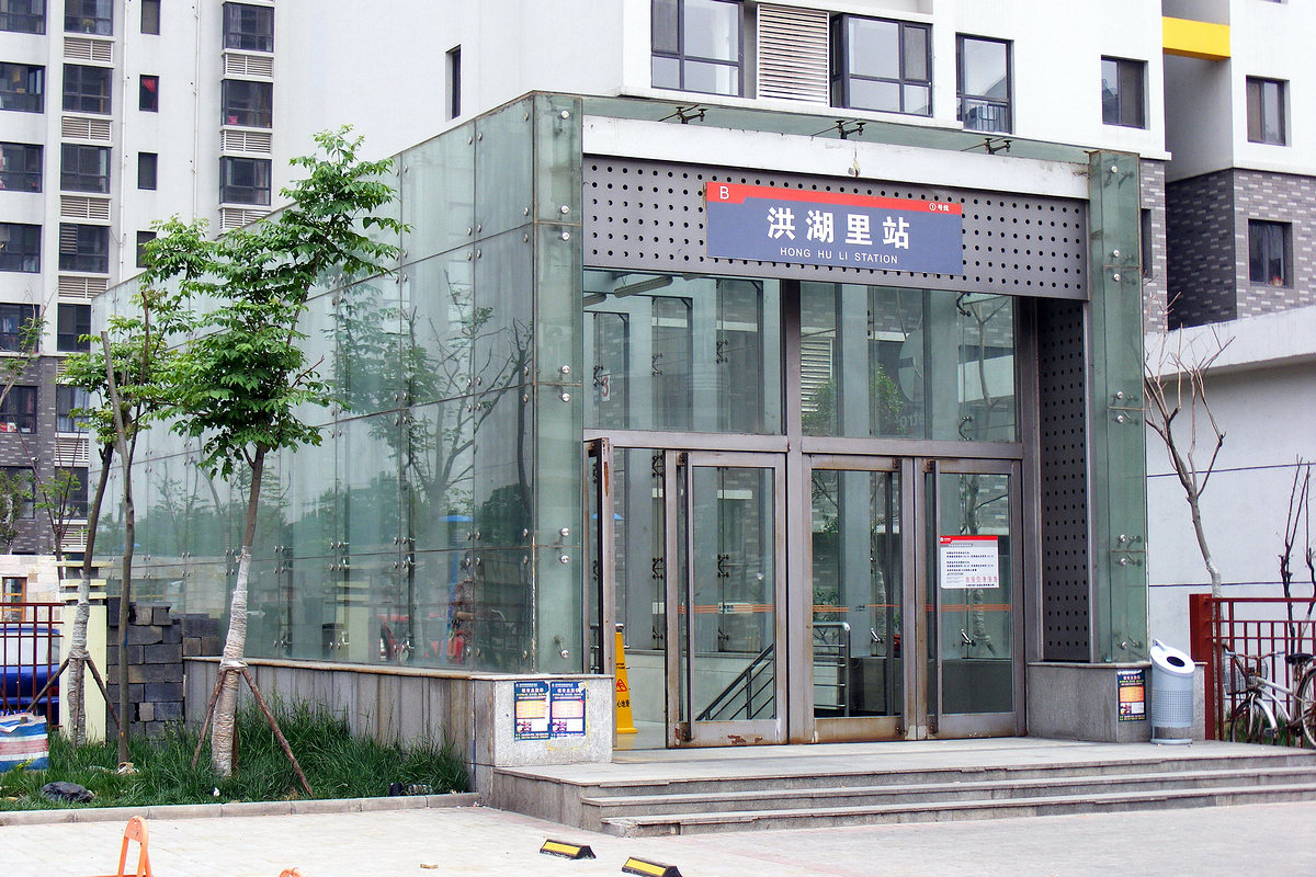 HONGHULI ST. (LINE 1)